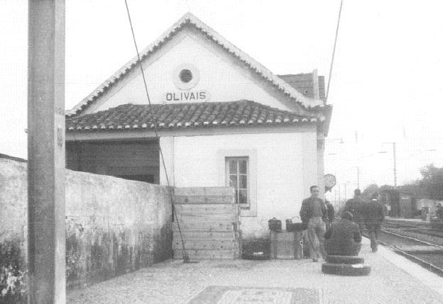 Olivais Railway Station in the 60s of the 20th century.